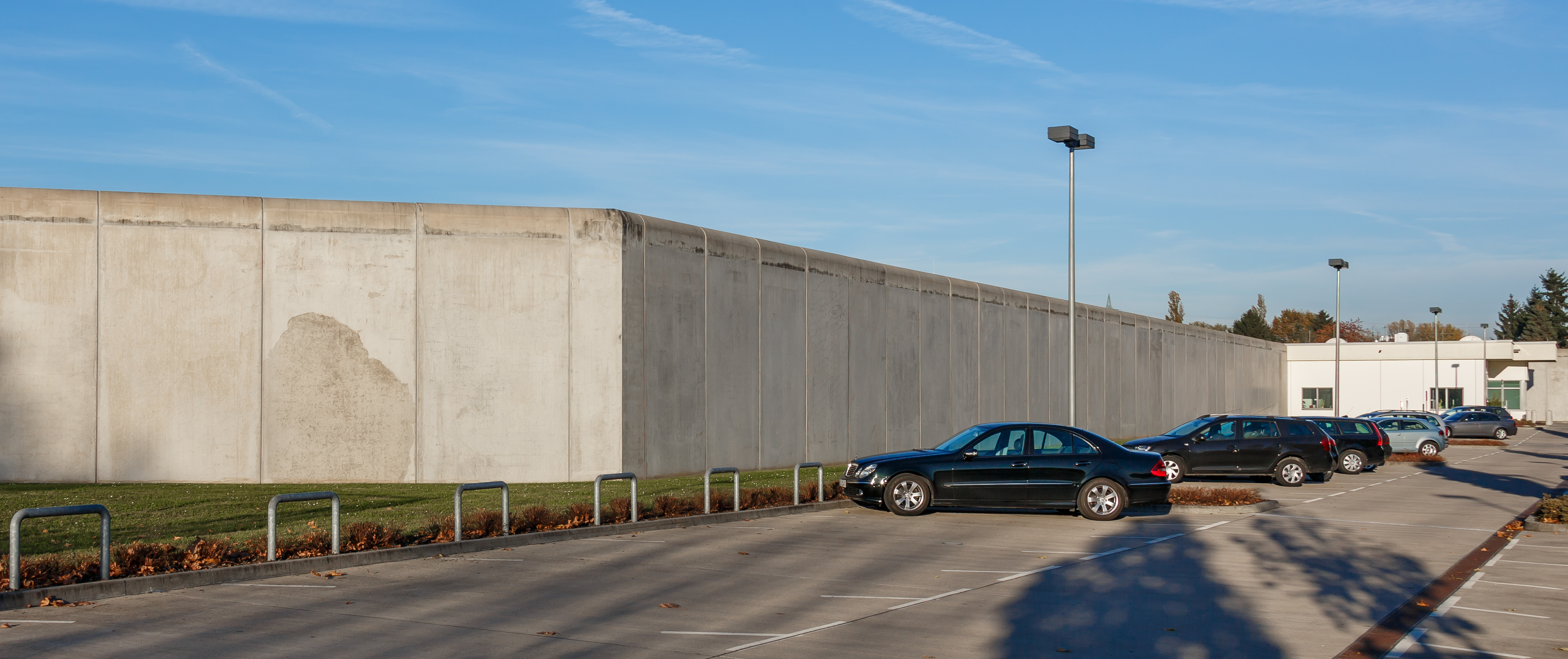 Cologne, Germany: Walls around the LVR Clinic Cologne, Forensic Psychiatrie